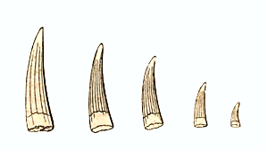 Sketch of the teeth of Rutiodon carolinensis, a late triassic phytosaur from North America